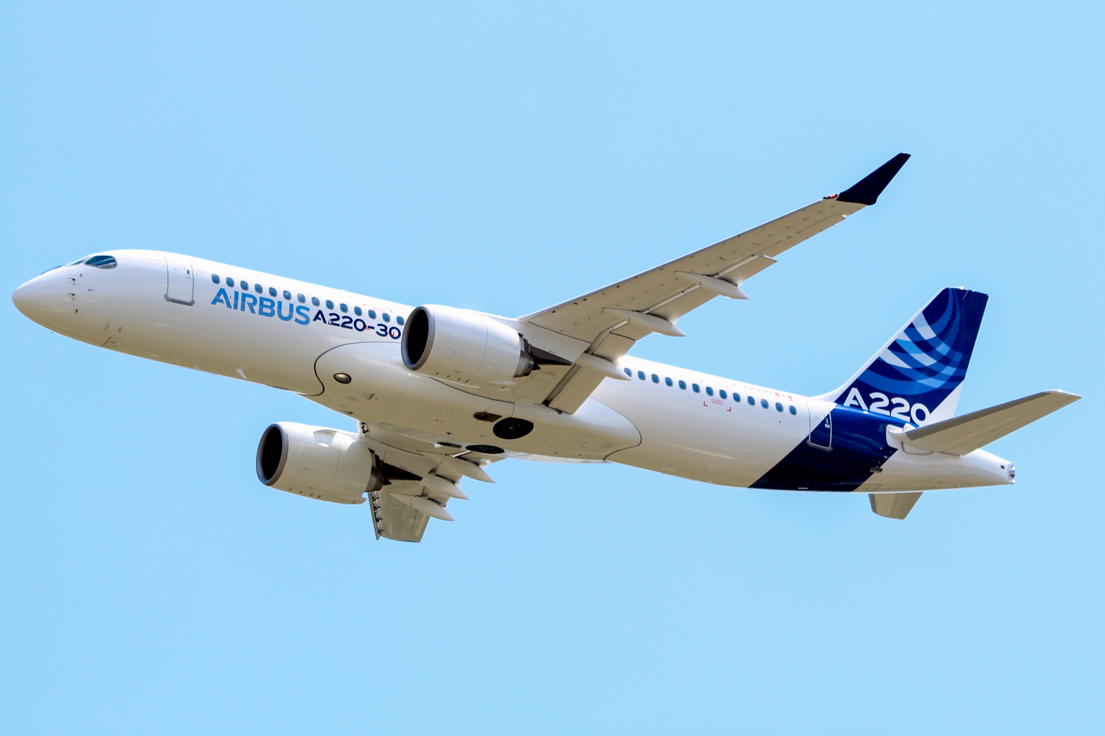 Previously knowed as CS300, the FTV8 (Flight Test Vehicle) performed a low-pass at Toulouse-Blagnac airport on 10 July 2018, for the official presentation at Airbus' headquarters with her new name.